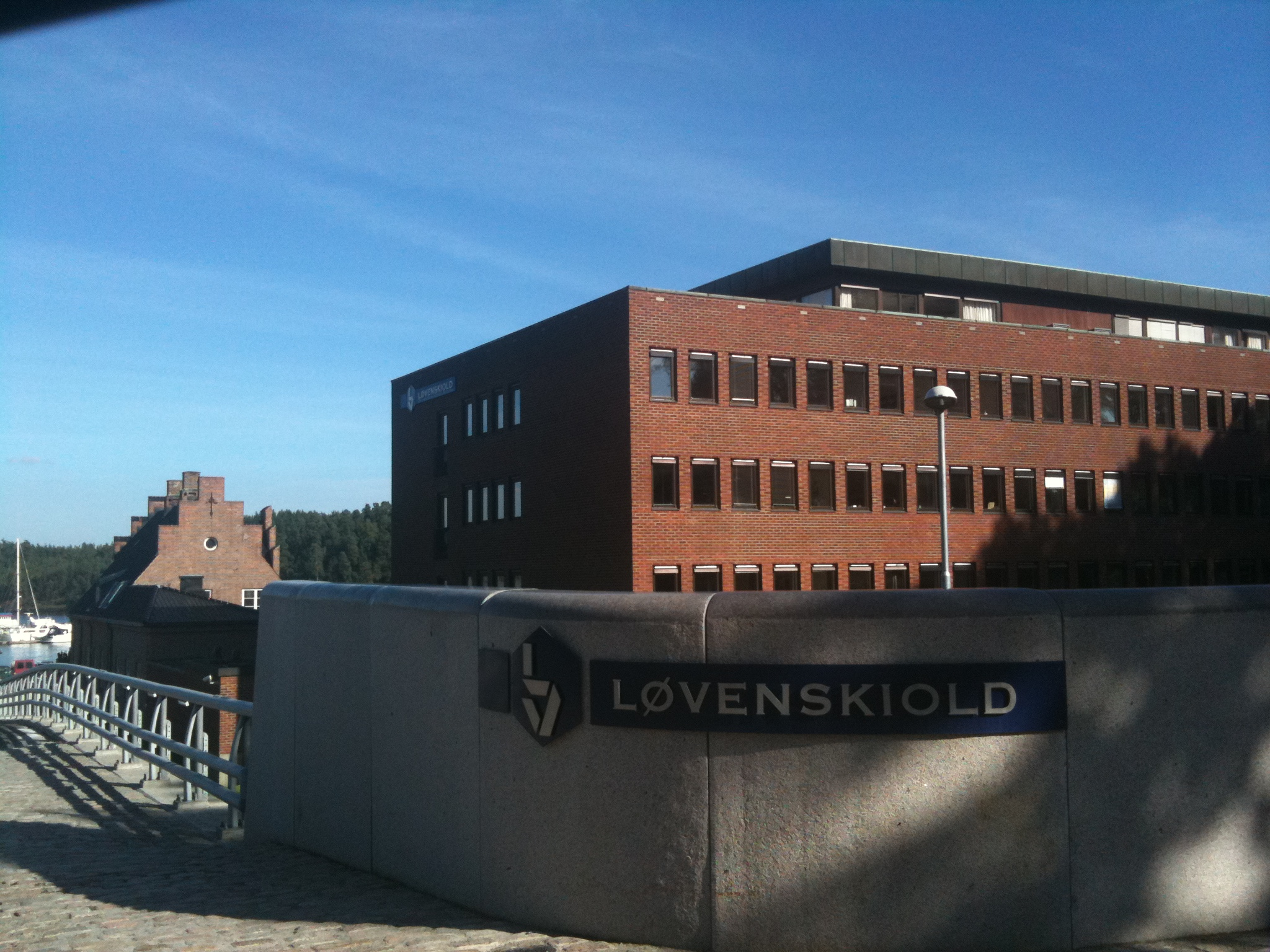 Lövenskiold Väkerö, headquarters in Oslo, Norway